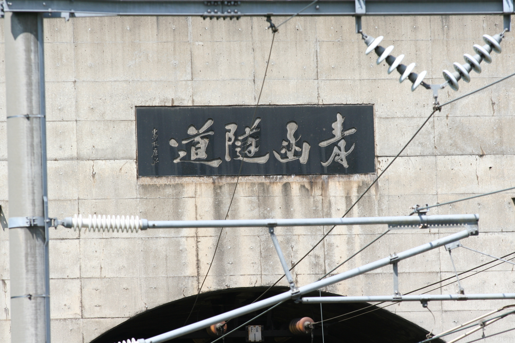 Seikan tunnel nameplate of Honshu side,it was written by Yasuhiro Nakasone,Prime Minister of Japan at the tunnel was starting.